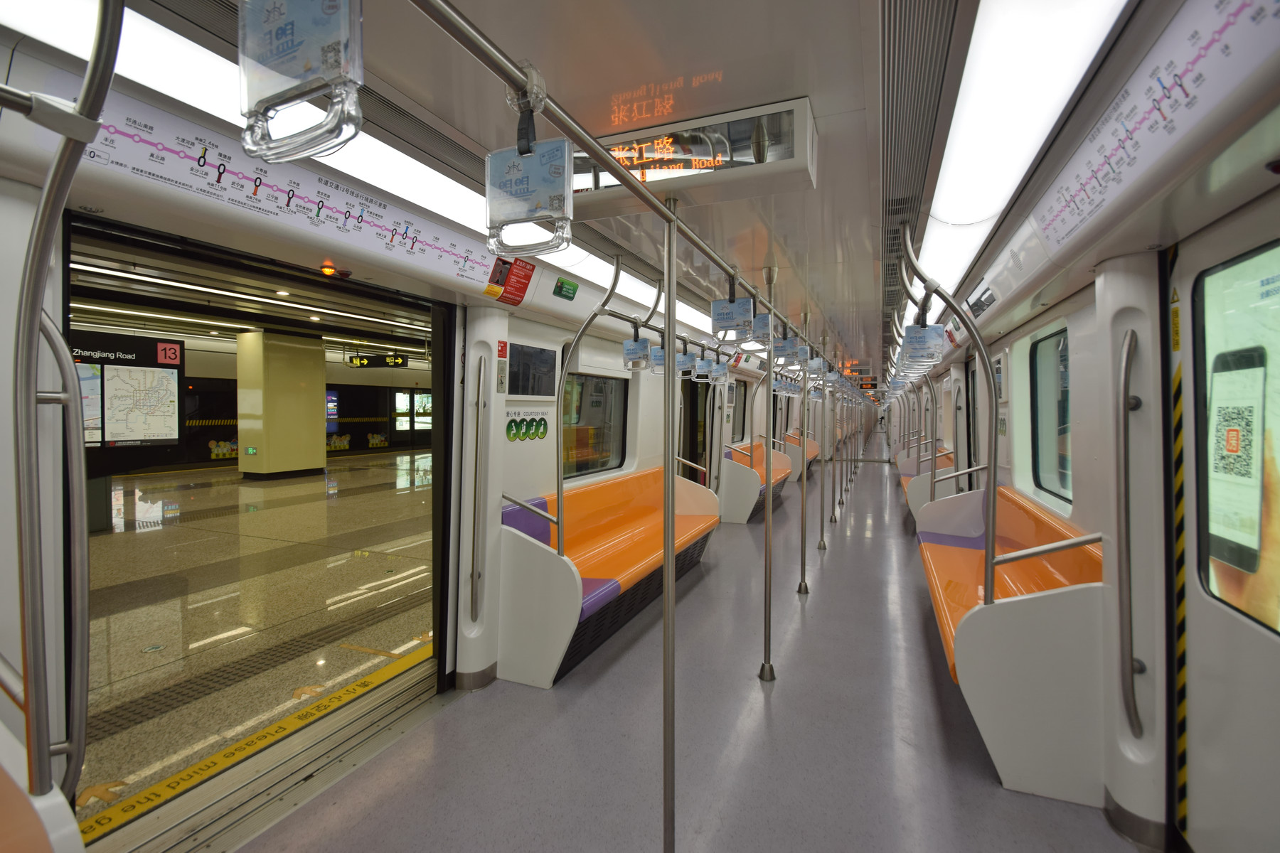 Interior of Shanghai Metro Line 13 13A02 Train